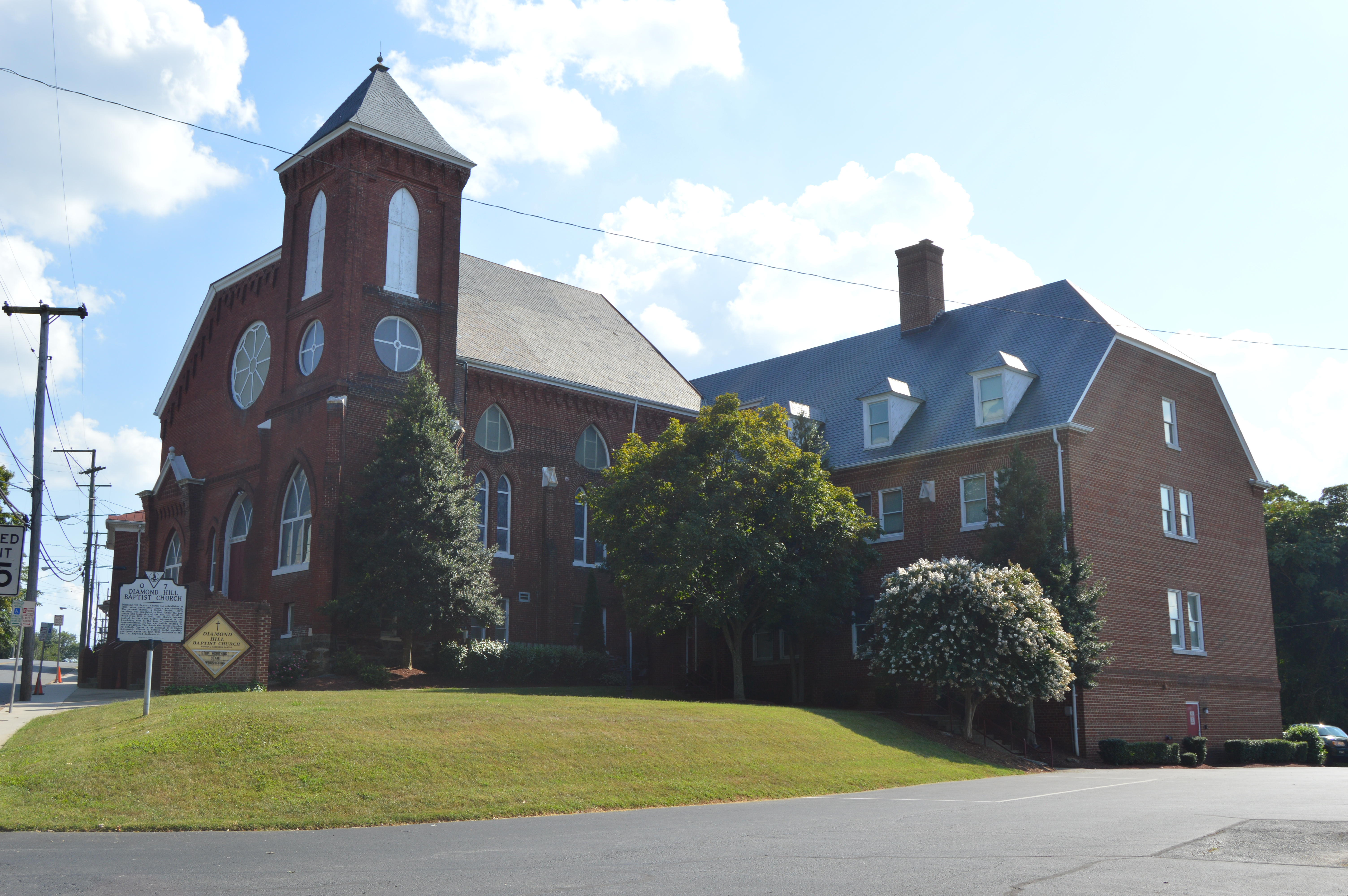 Front and northern side of the Diamond Hill Baptist Church, located at 1415 Grace Street in Lynchburg, Virginia, United States. Built in 1937, it is listed on the National Register of Historic Places, and it is part of a Register-listed historic district, the Diamond Hill Historic District.